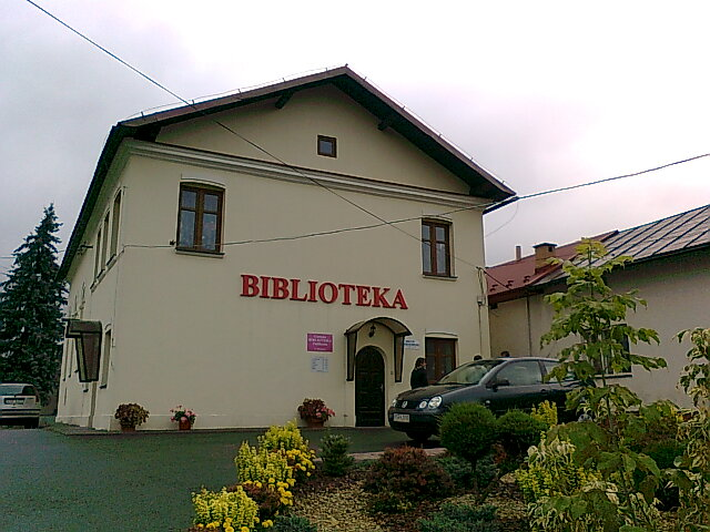 Synagogue in Niebylec (2012)